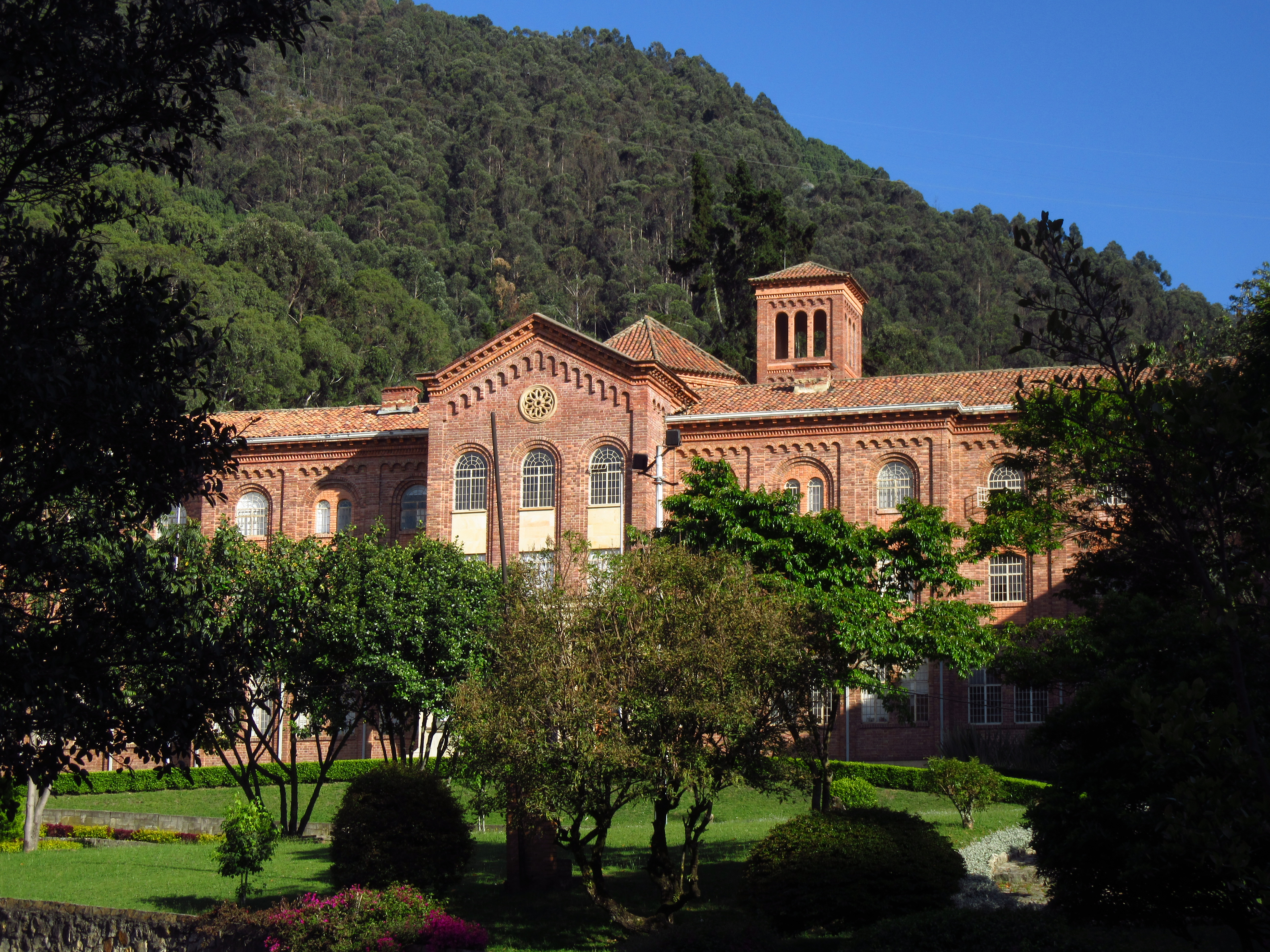 Bogotá